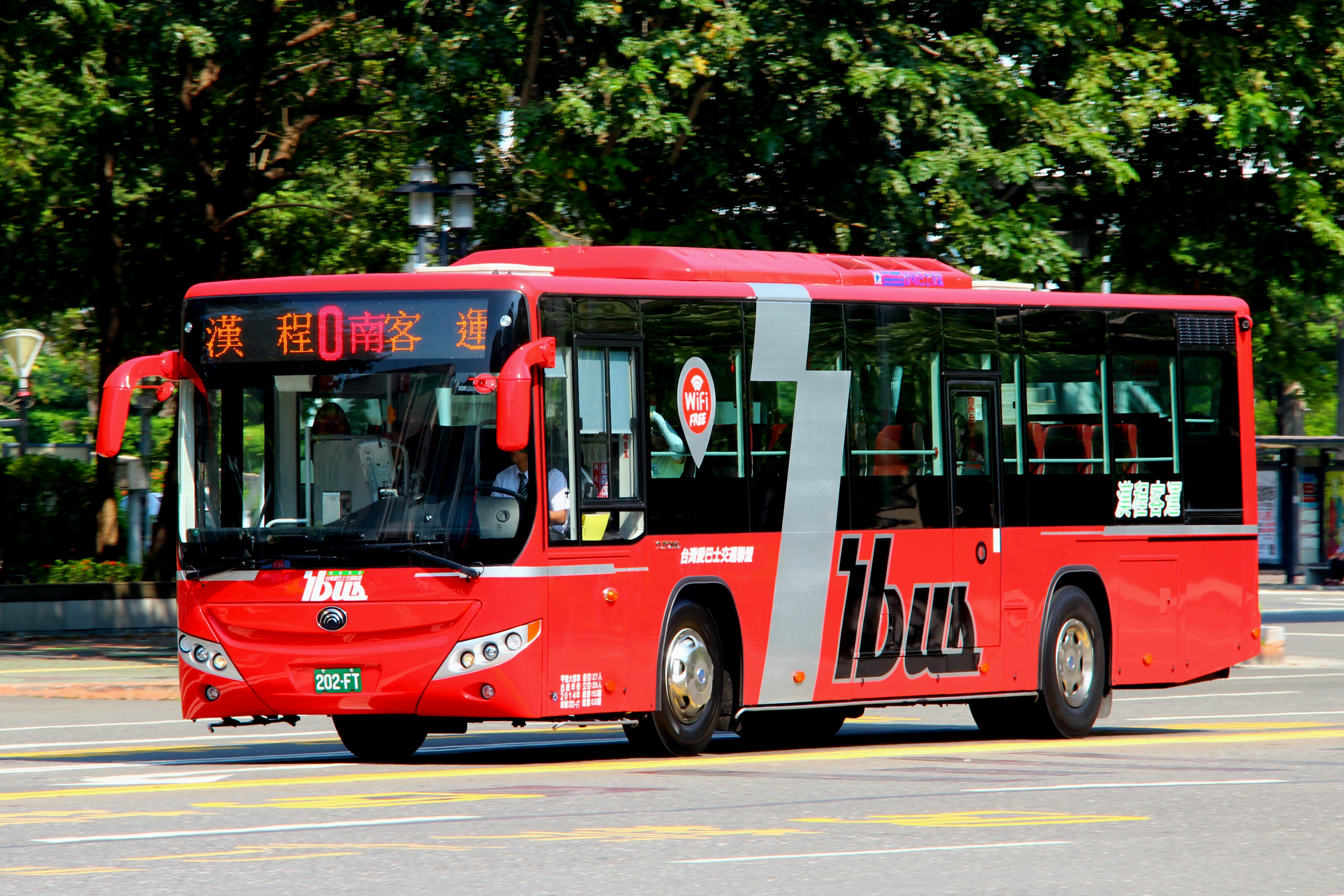 Han-Cheng Bus 202-FT